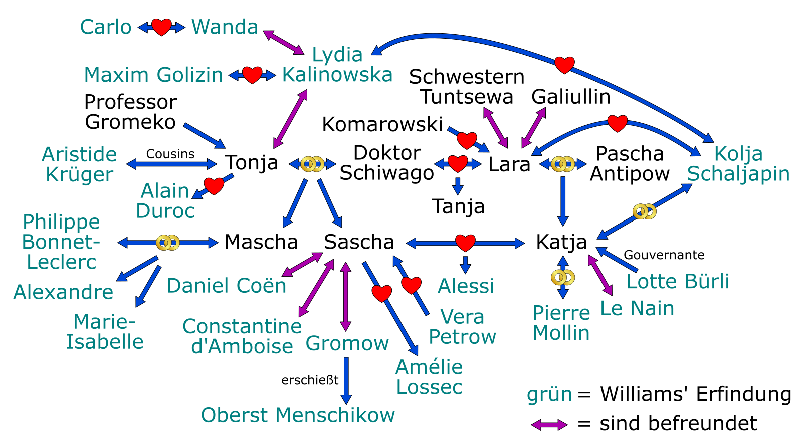 characters in Alexander Mollin's (= Jim Williams) novel "Lara's Child"